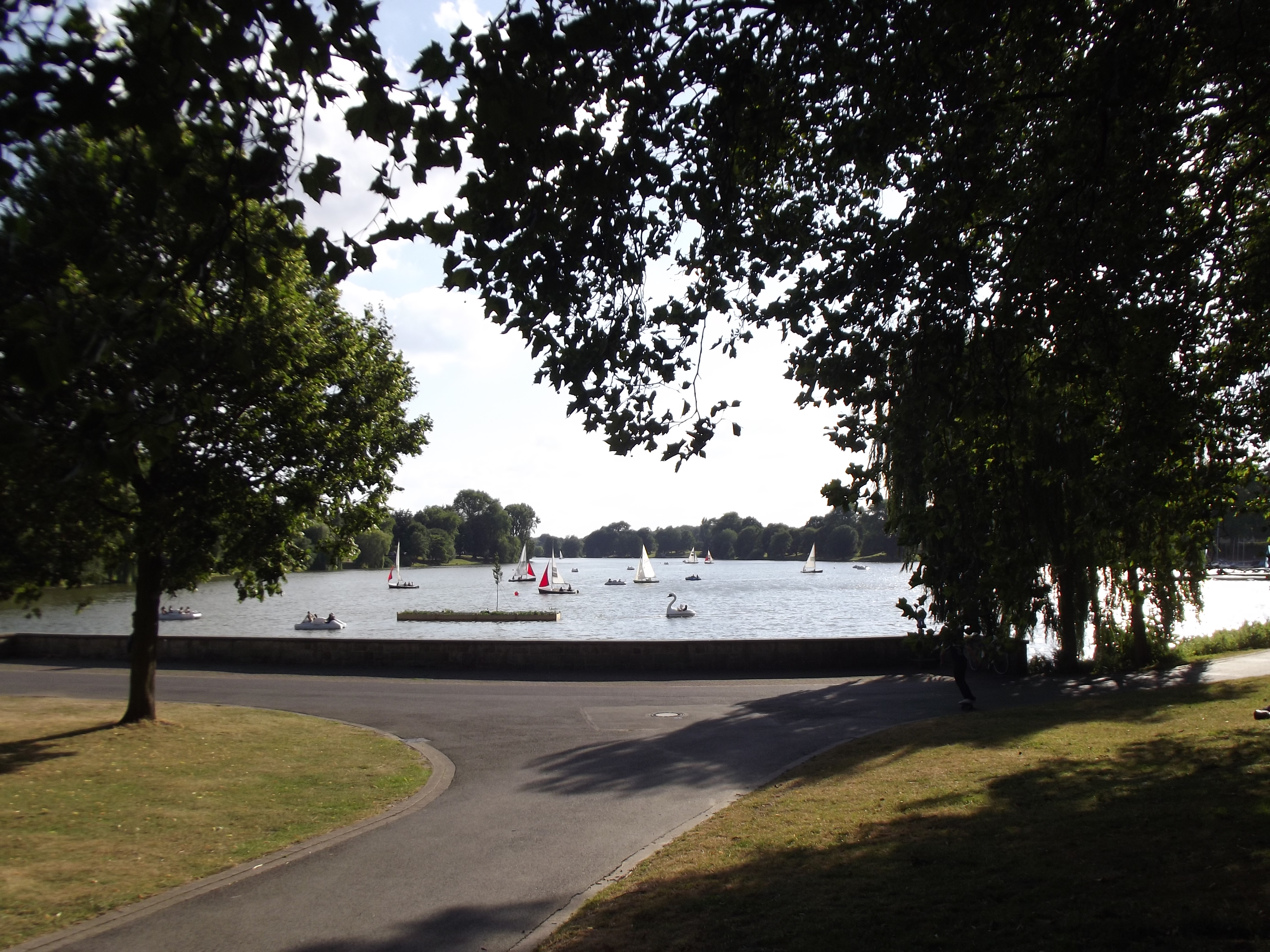 Picture of the Aasee and some boats, without lots of trees, traffic signs, sparsely covered bodies or recognisable faces included